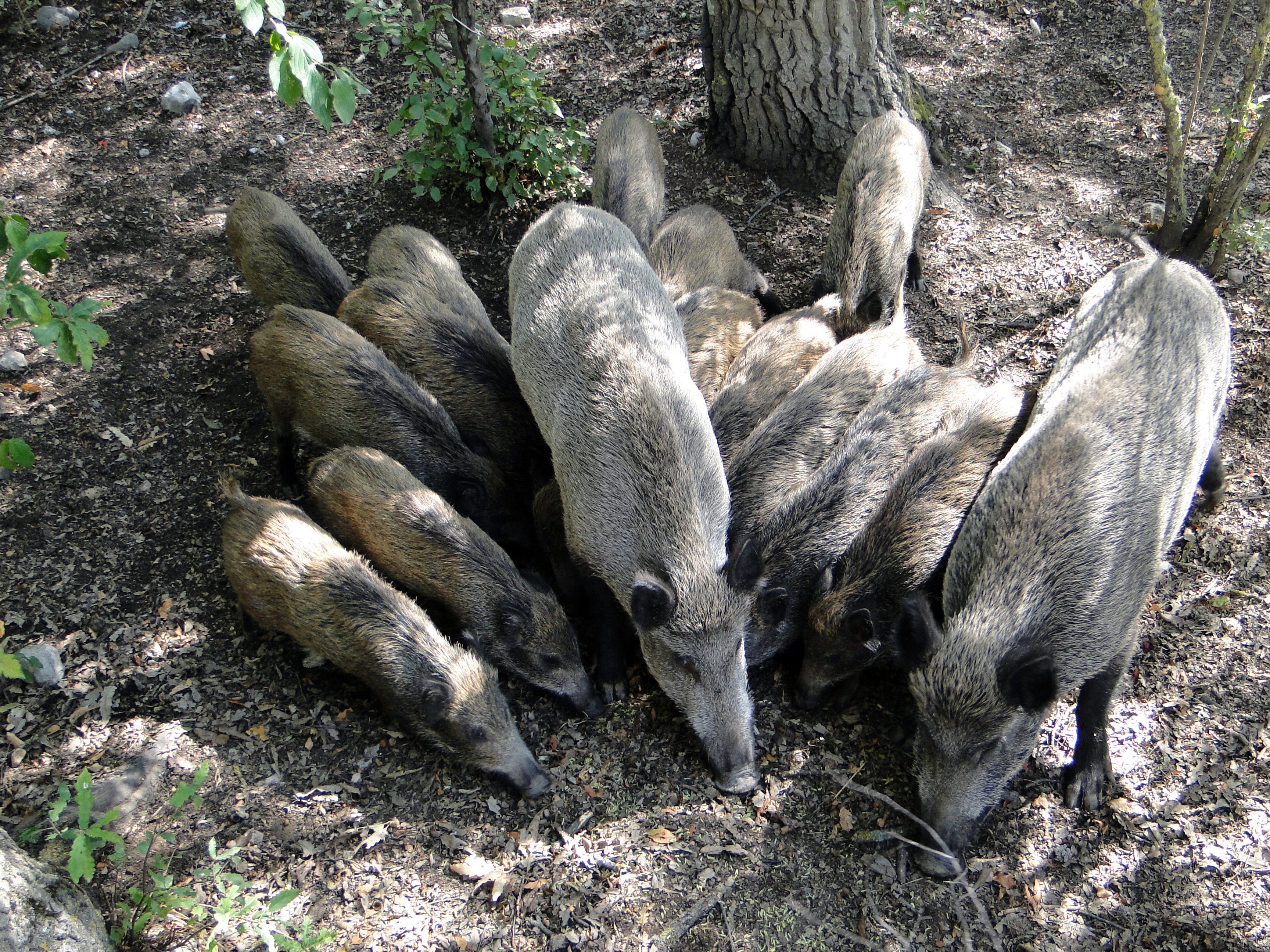 Lunch time, Boars together — Golestan National Park, far northeastern Iran.